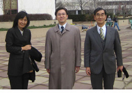 The Representatives from the Nuclear Safety Commission, Cabinet Office visited the headquarters of the Nuclear Regulatory Commission in Rockville City, Maryland State, in order to exchange information about regulatory review and audit practices with members of the Office of the Inspector General, Nuclear Regulatory Commission on February 9, 2005.